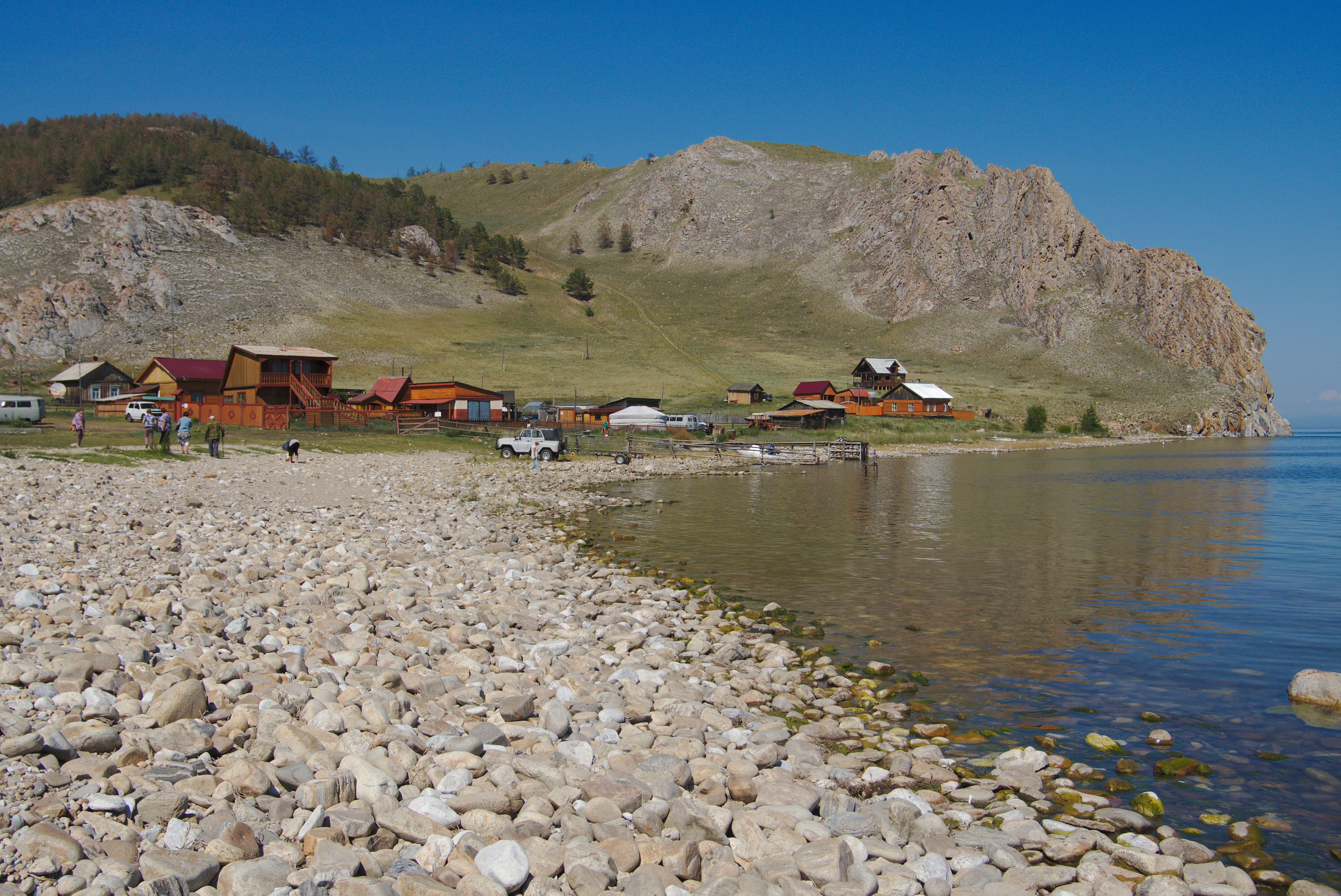 Узуры (Uzuri), Olkhon Island, Lake Baikal, Russia